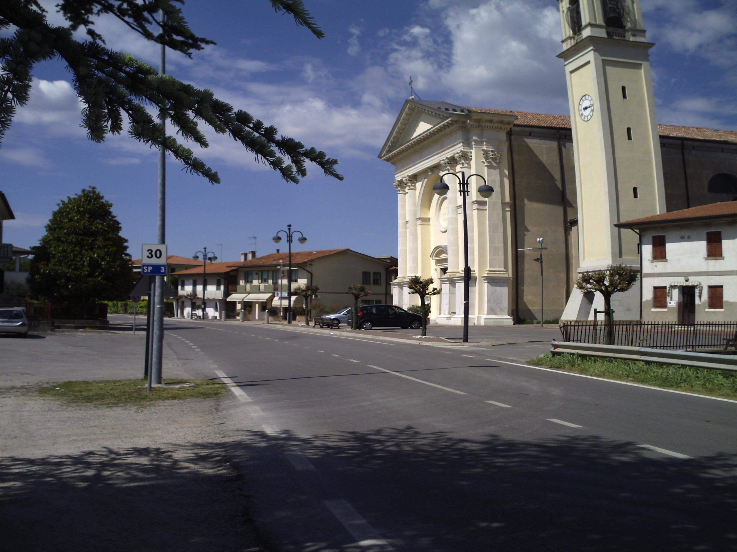 View of Agna, Italy